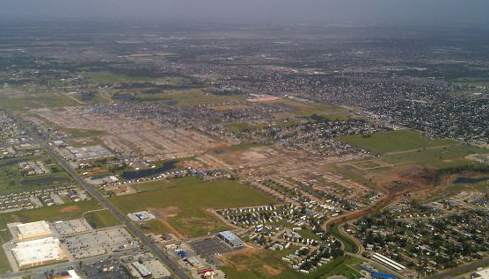 This picture was taken on 24 June 2013. Showing the damage still prevalent one month.